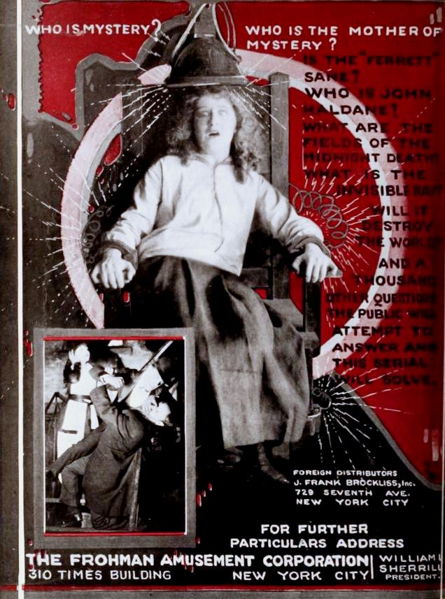 Advertisement for the American science fiction film serial The Invisible Ray (1920) with Ruth Clifford, from the insert after page 82 of the January 17, 1920 Exhibitors Herald.